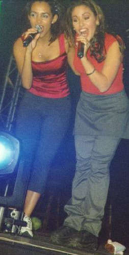 Mariama Goodman at the Superfuif concert, Utrecht, Netherlands, November 6, 1998